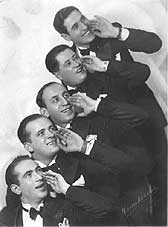 Ovcharov Jazz, Bulgaria